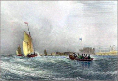 picture of the Fort Rouge in Calais (France)